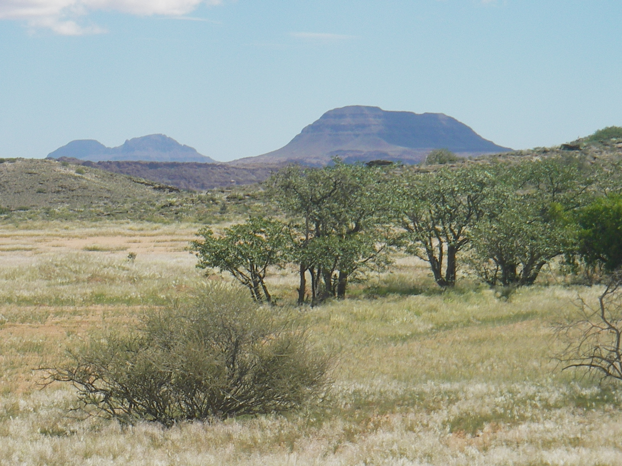 Some mountains around Twyfelfontein bare a similar appearance to Utah's Monument Valley.